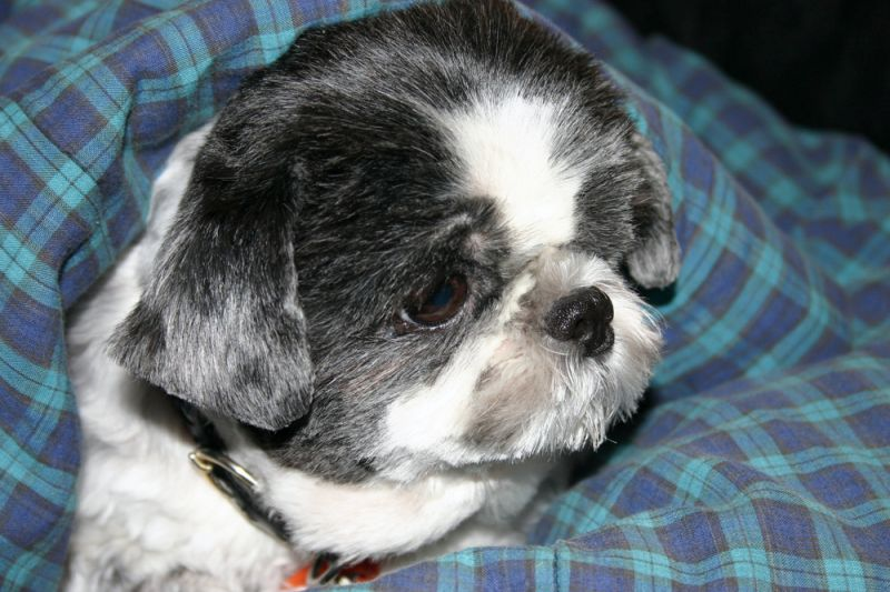 Shih Tzu - Dog - 2